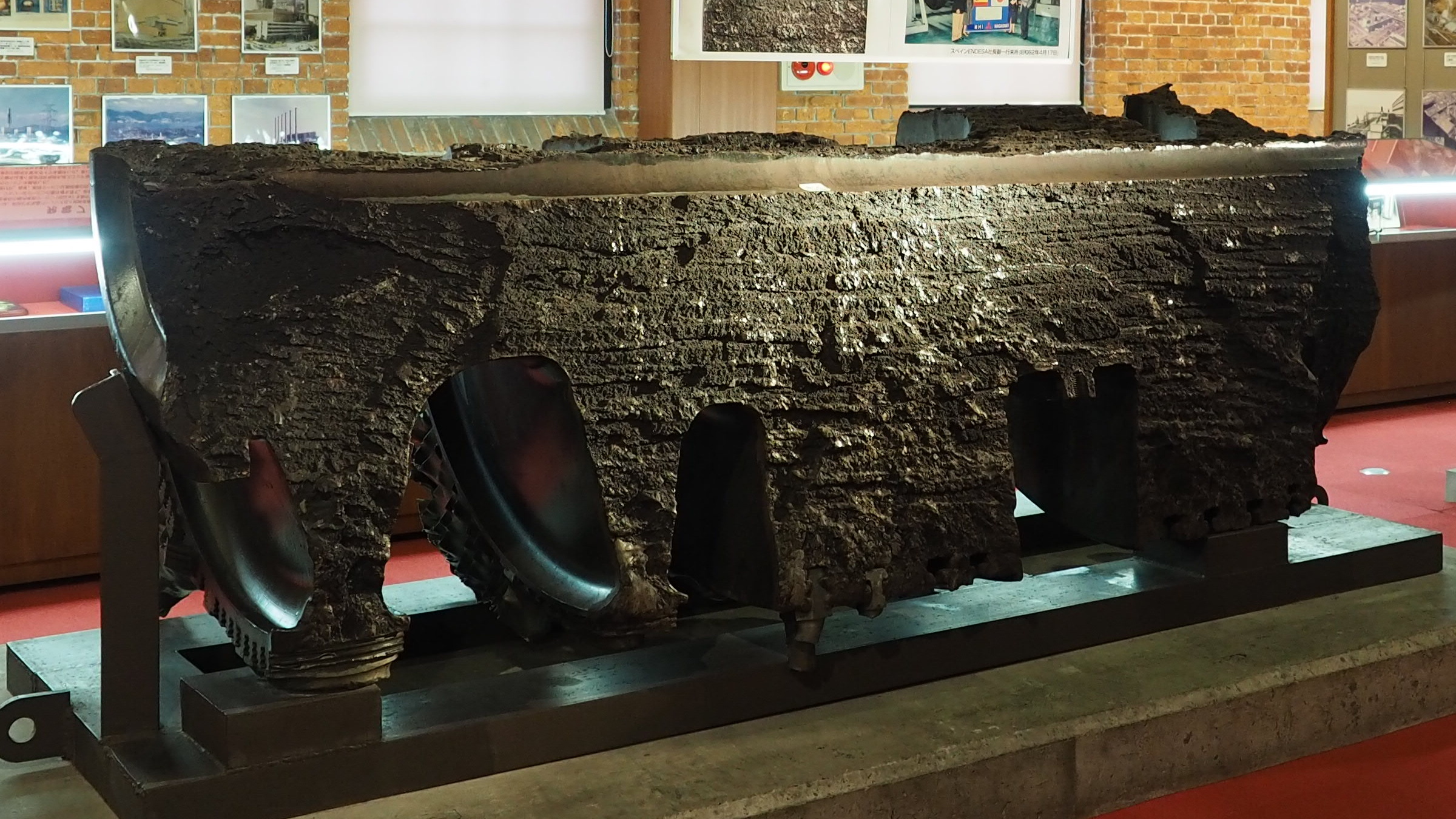 One of the fragments of a steam turbine rotor which broken into four pieces in an accident during a test in 1970. This 9 t weight fragment was found in Nagasaki Bay 880 m away from the accident site.